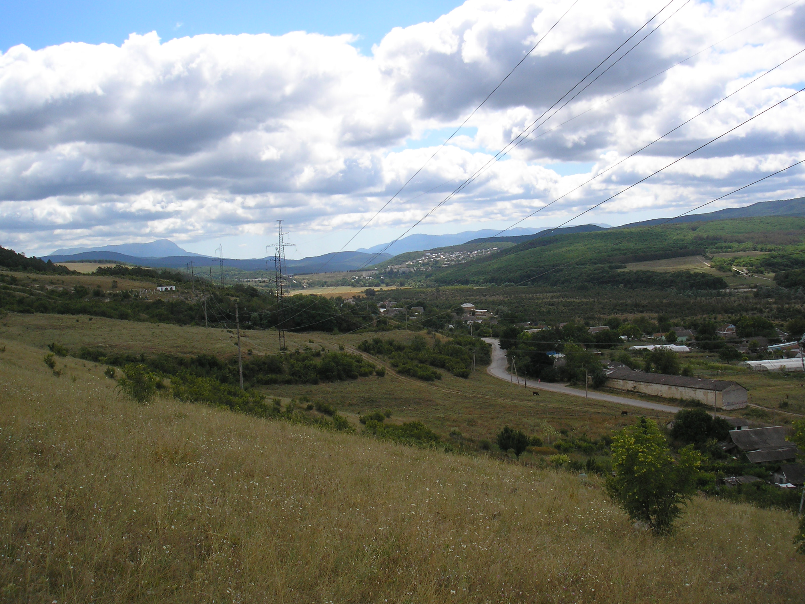 Village Malinovka, Bakhchisaray district, Crimea